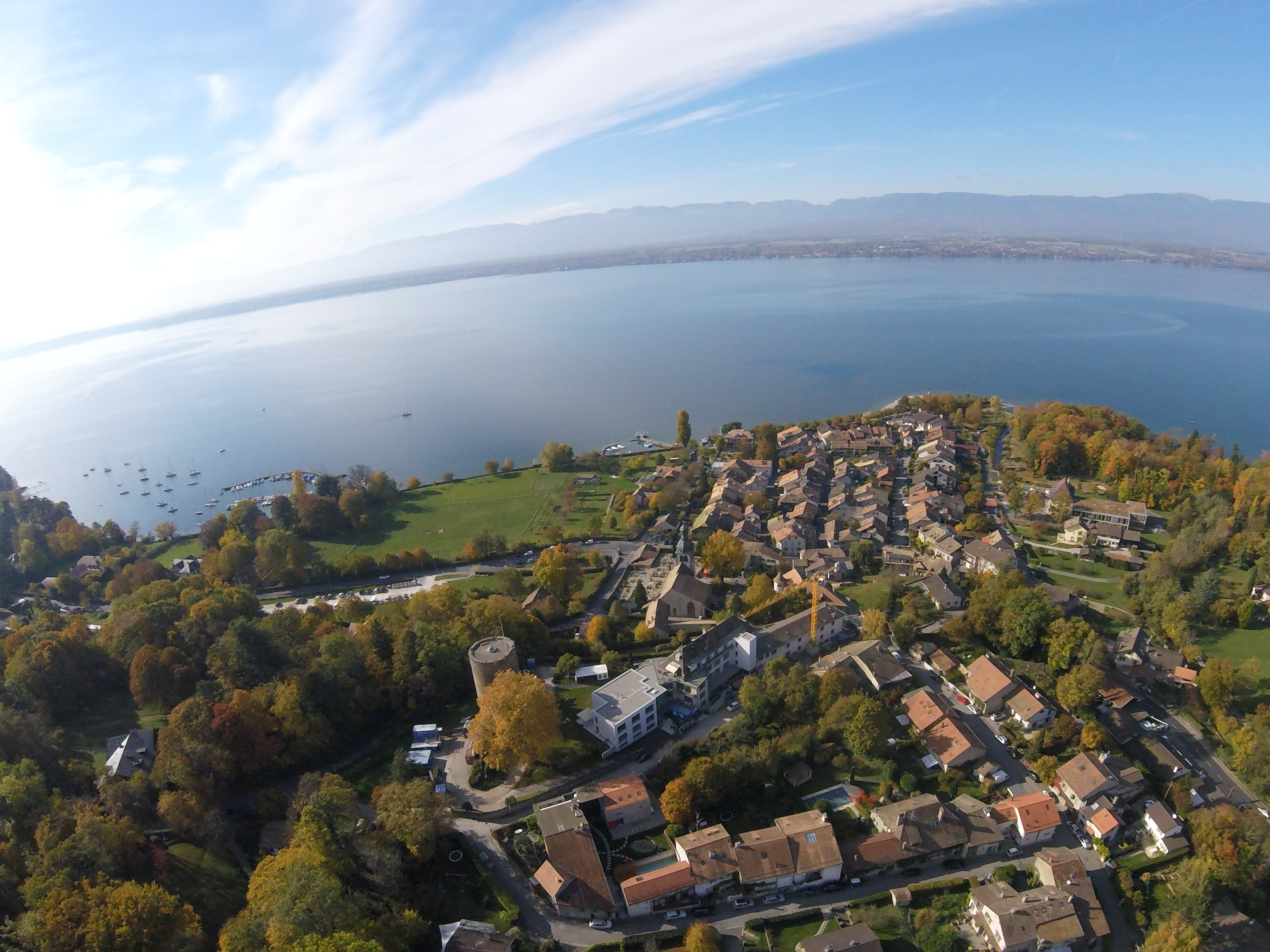 Hermance